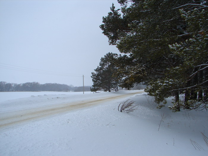 Russian Winter